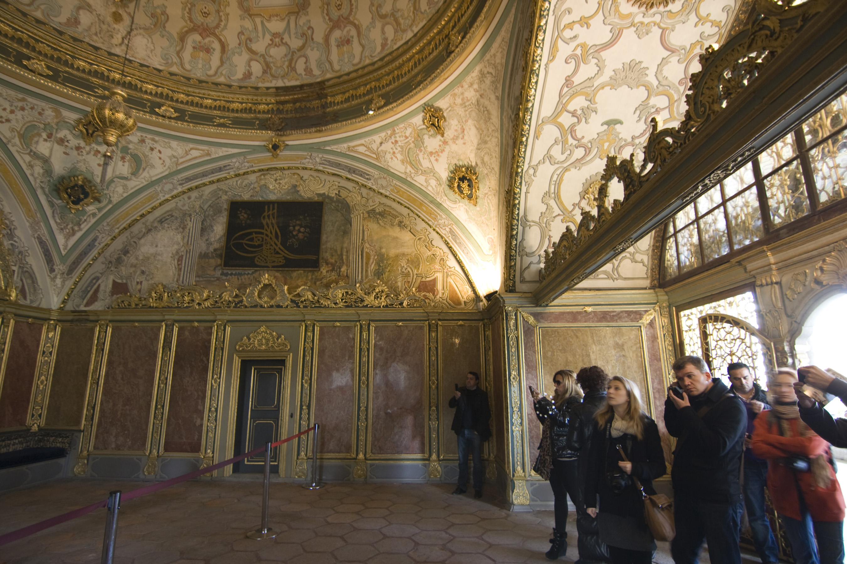 Topkapı Palace, Istanbul, Turkey